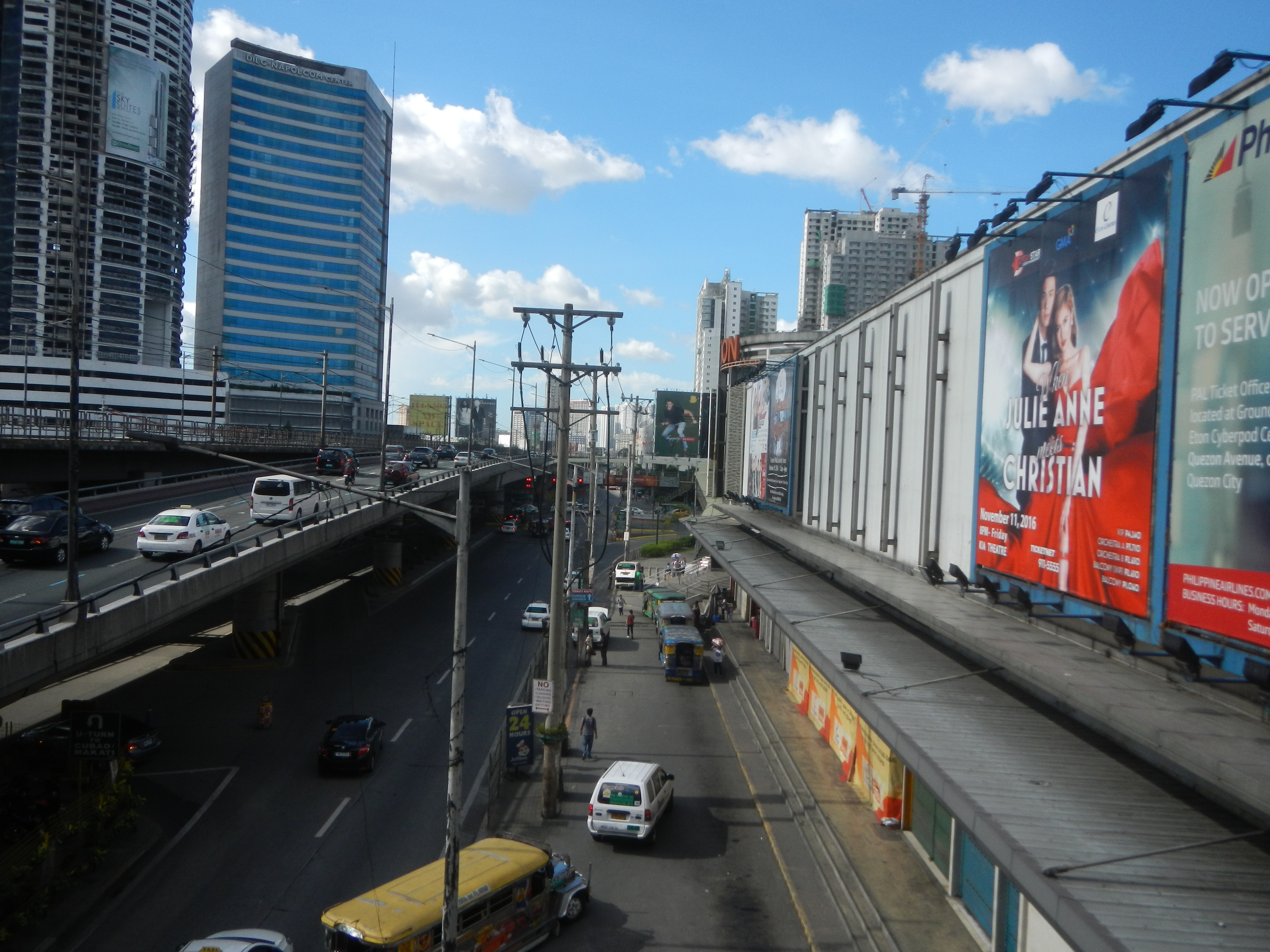 Pinyahan, Eton Centris One Cyberpod Centris 14°38'33"N 121°2'21"E Two Cyberpod Centris 14°38'31"N 121°2'23"E Eton Centris Station (Quezon City) 14°38'37"N 121°2'19"E Centris Station Centris Walk Quezon Avenue MRT Station 14°38'33"N 121°2'18"E Quezon Avenue MRT Station in the List of barangays of Metro Manila, Legislative districts of Quezon City District IV, Barangays of Quezon City Pinyahan, District IV, Diliman, Quezon City; from EDSA (road) (Note: Judge Florentino Floro, the owner, to repeat, Donor Florentino Floro of all these photos hereby donate gratuitously, freely and unconditionally all these photos to and for Wikimedia Commons, exclusively, for public use of the public domain, and again without any condition whatsoever).